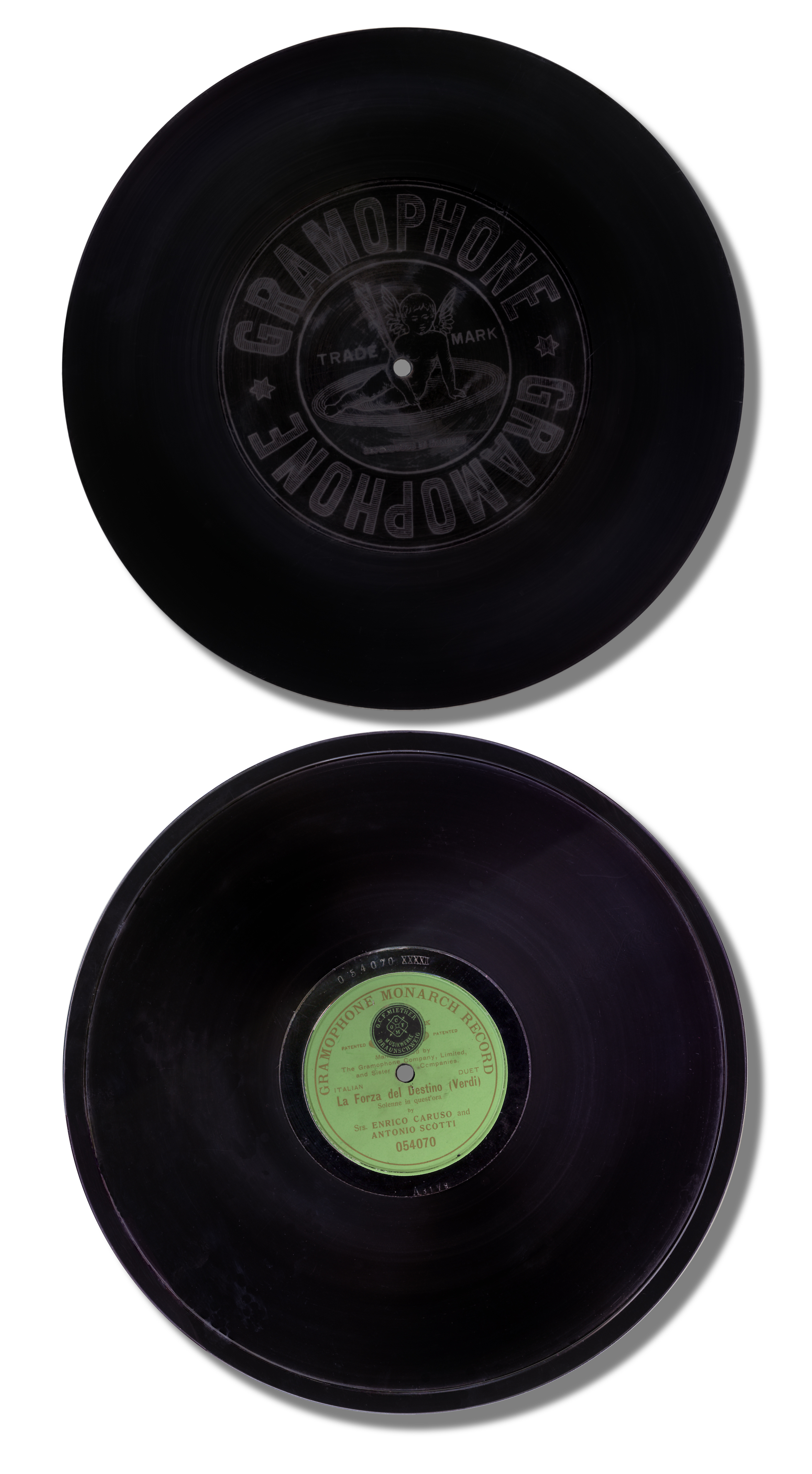 Enrico Caruso sings La Forza del Destino (Giuseppe Verdi). Recording made on 13 March 1906 for the Victor Talking Machine Company. This example was pressed in Hannover, Germany ca 1907-1909 for the Gramophone Company.